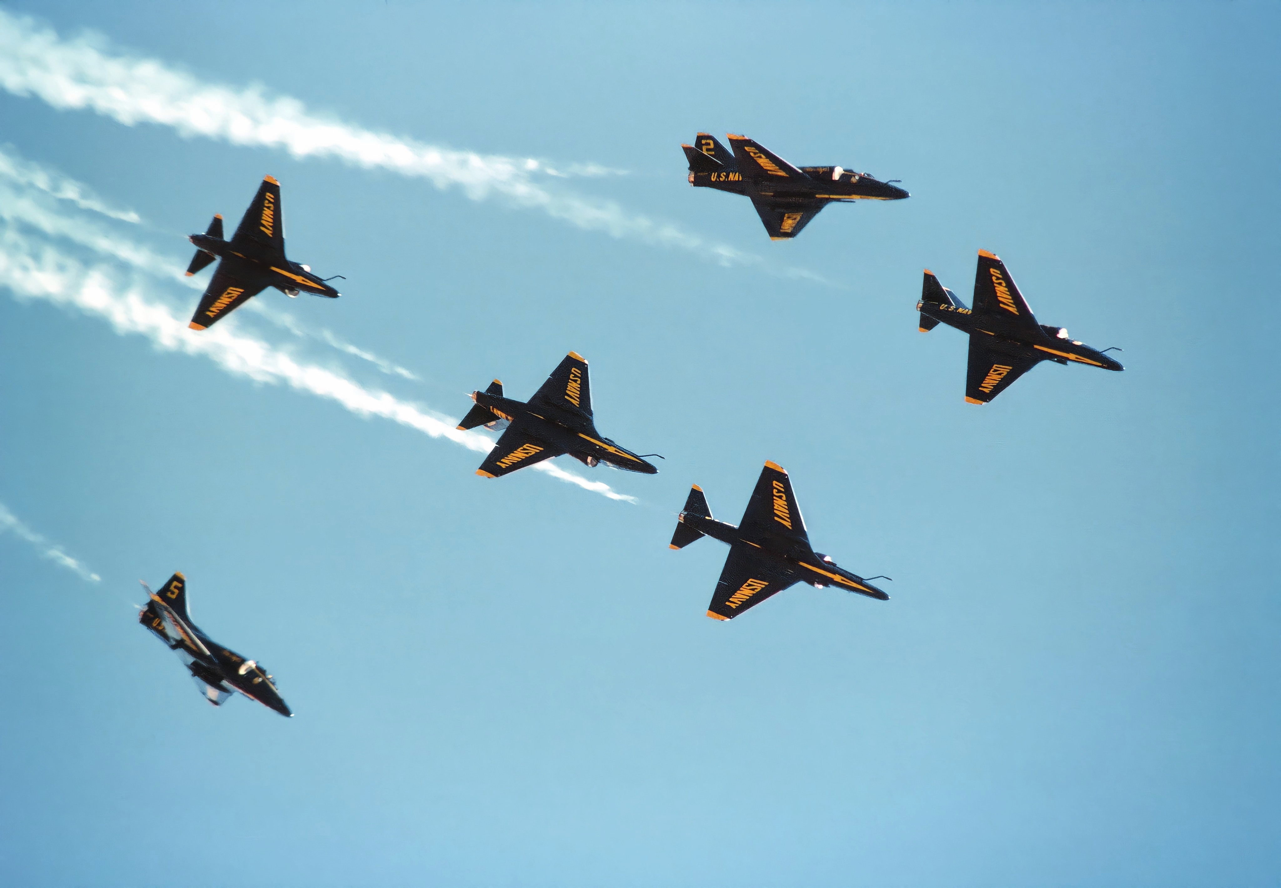 Six Douglas A-4F Skyhawk fighters of the U.S. Navy Blue Angels flight demonstration team execute a "Fleur-de-Lis" maneouver during an airshow.